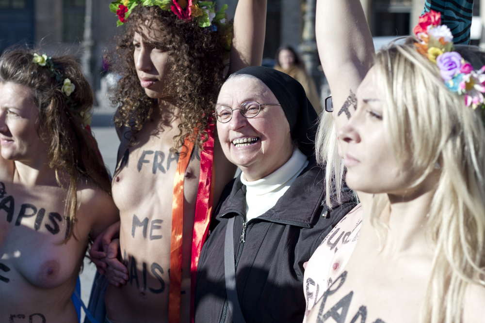 FEMEN protest. Ministry of Justice - France